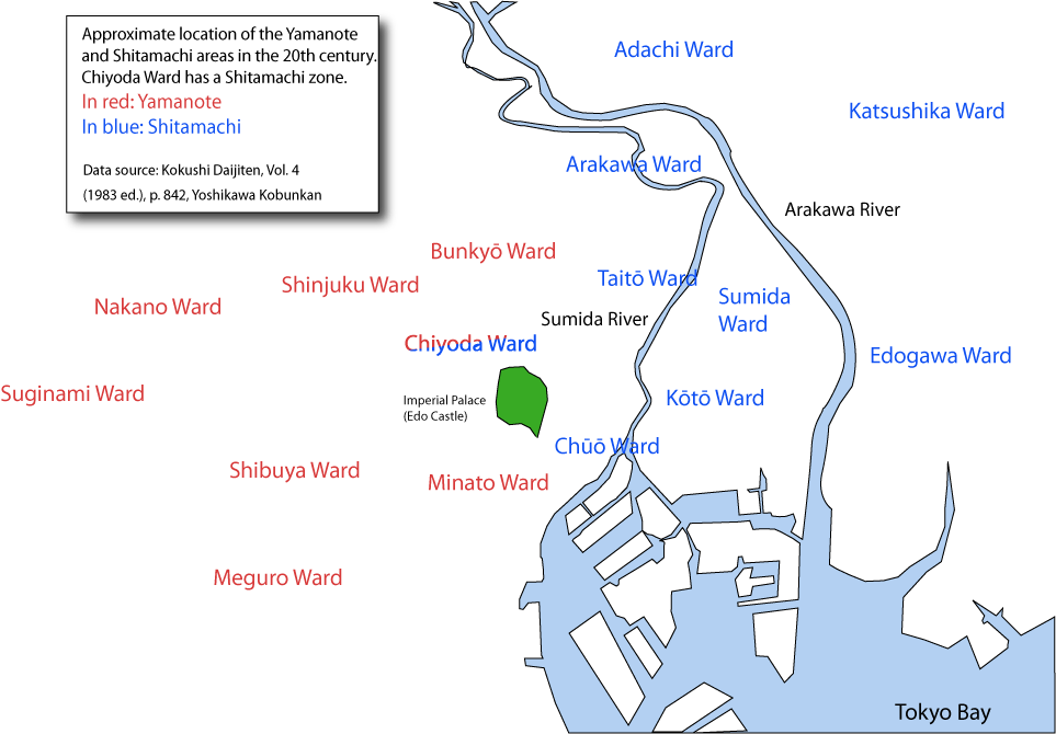 A map showing the approximate extension of the Yamanote and Shitamachi areas in Tokyo. Editable svg version also uploaded.